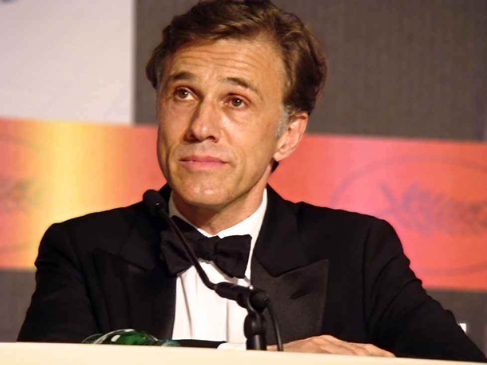 Christopher Waltz at the 2009 Cannes Film Festival.